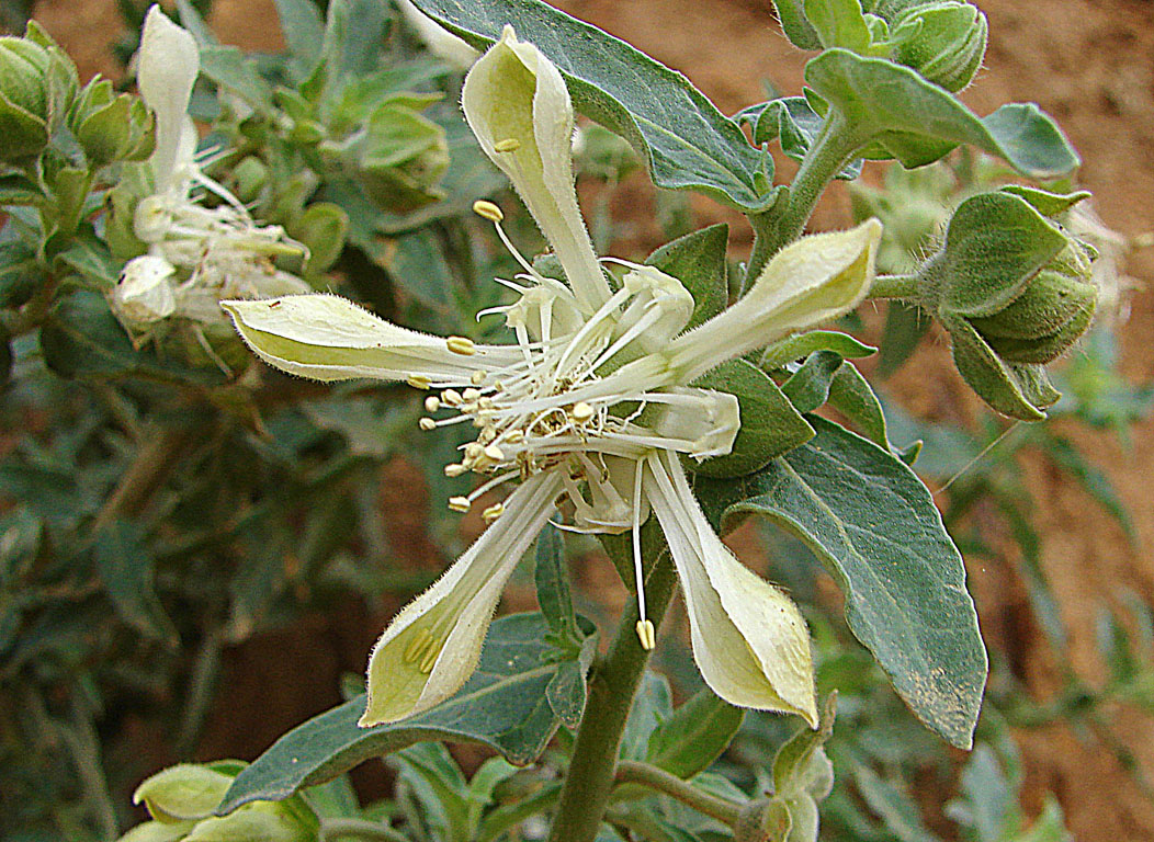 With few stinging hairs, from the mountains of western Peru. In context at